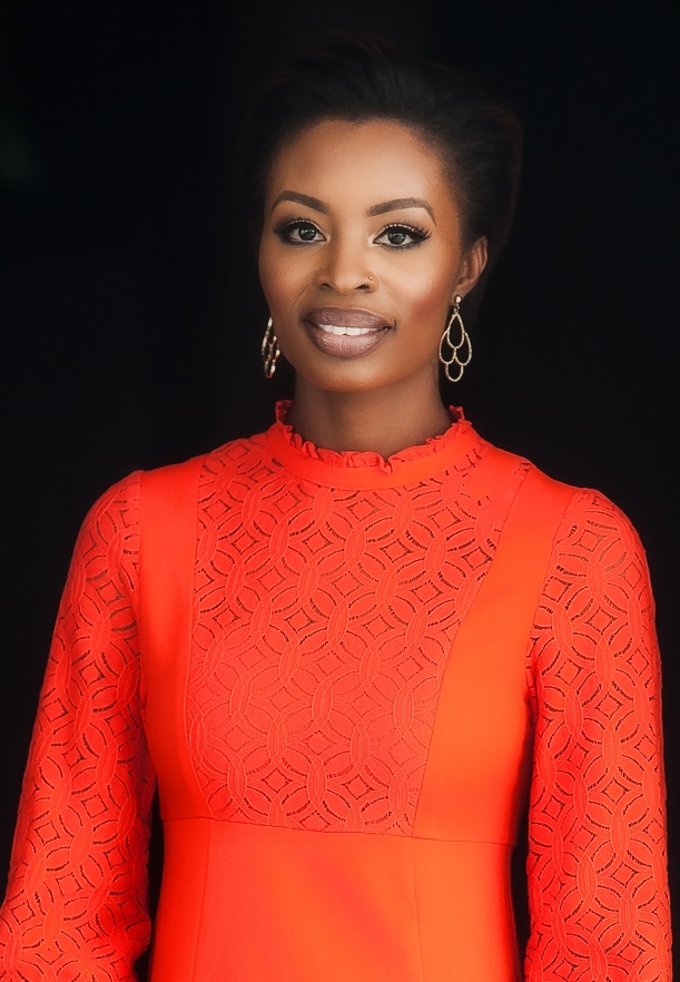 Lamide Akintobi studio portrait